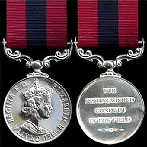 The Distinguished Conduct Medal, Queen Elizabeth II version